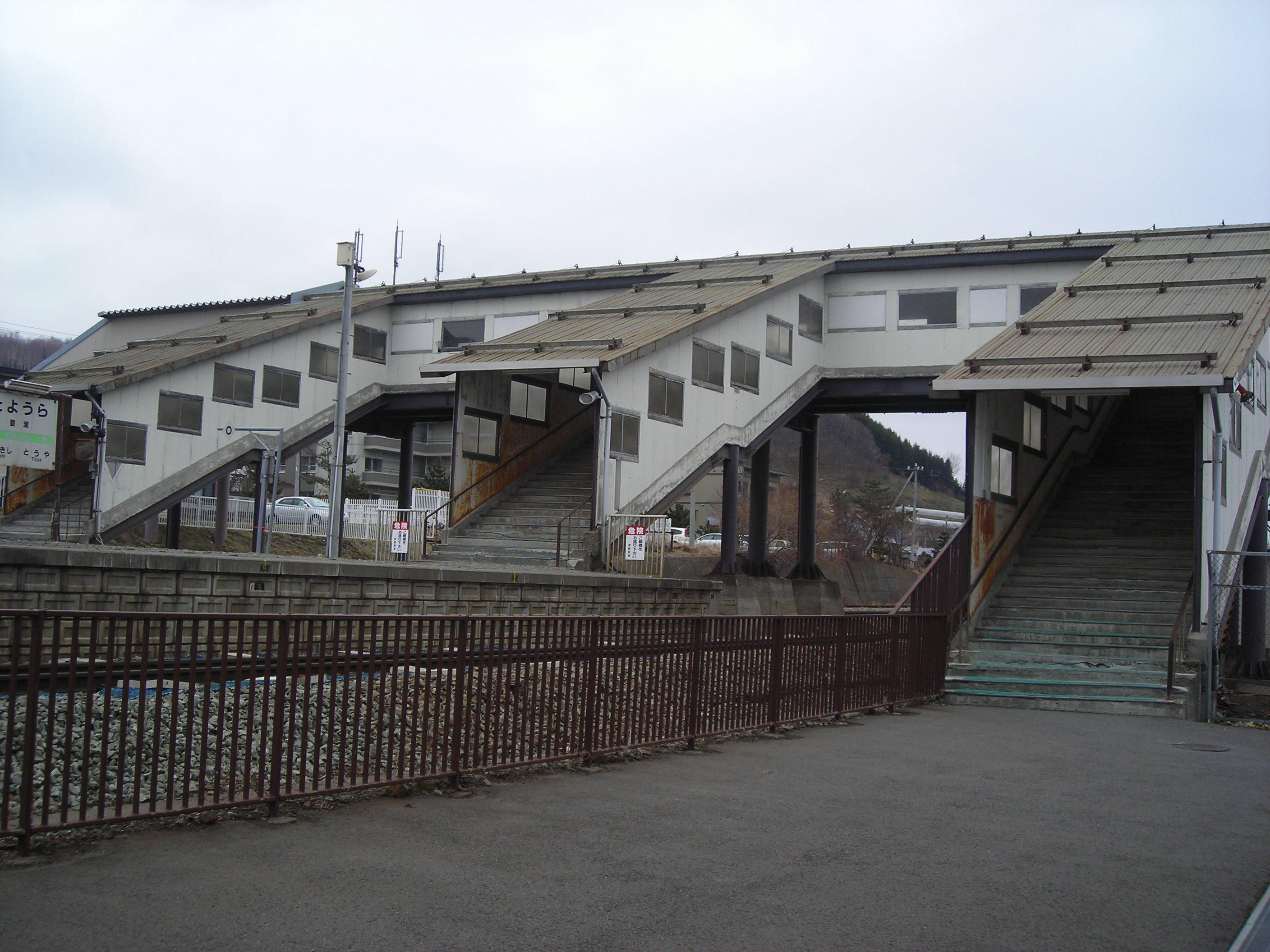 Footbridge at Toyoura Station on JR Hokkaido Muroran Main Line